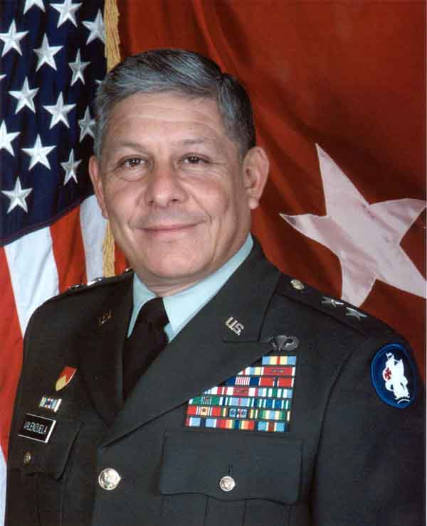 Major General Alfred Valenzuela, U.S. Army from [1]